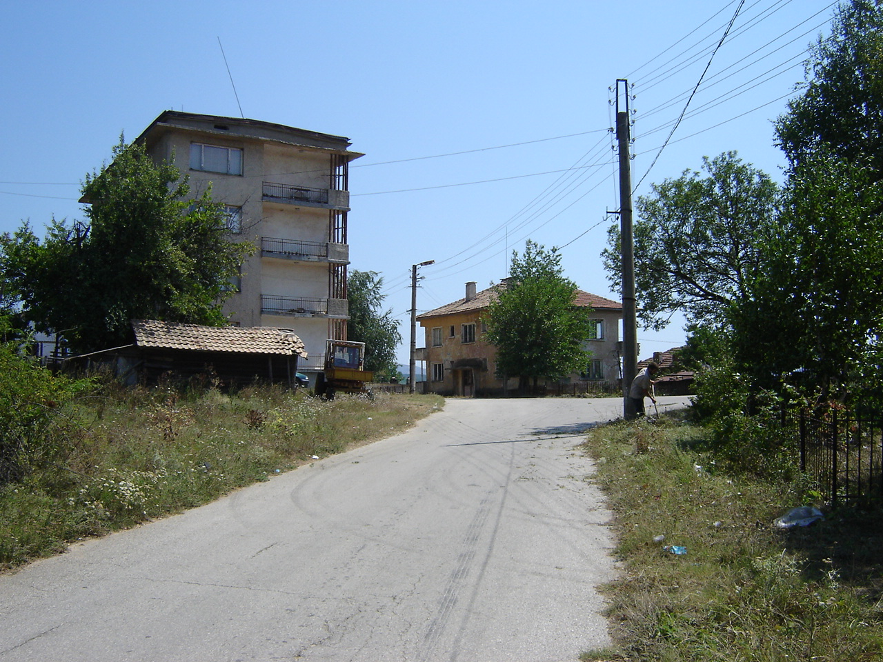 Author: Kiril Kapustin (Me) URL: Creative Commons license Summary Author: Kiril Kapustin (Me) URL: Creative Commons license